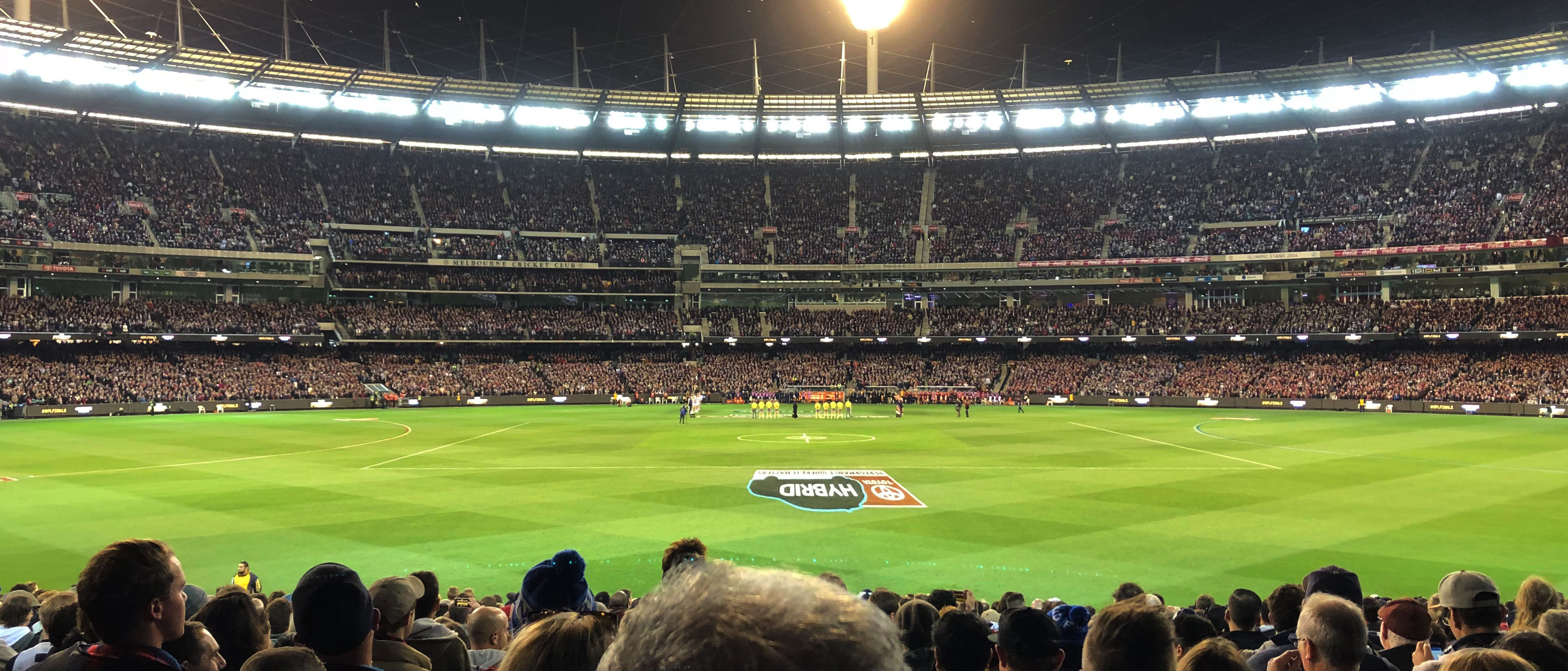 Picture taken during the Australian national anthem at the 2018 AFL elimination final between Melbourne Demons and Geelong Cats, Melbourne Cricket Ground, Victoria, Australia